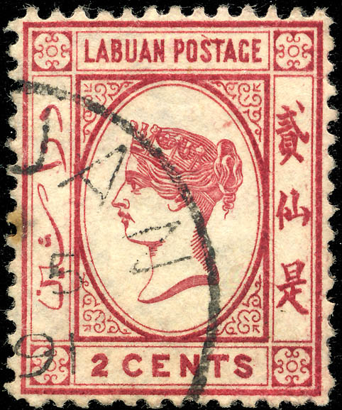 Labuan 2-cent stamp of 1885